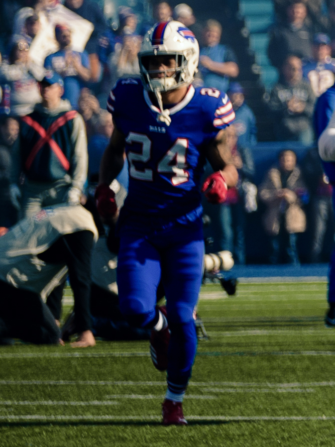 The Buffalo Bills take to the field before the start of the NFL's annual Salute to Service event before their game against the Chicago Bears game, Orchard Park, N.Y., Nov. 4, 2018. Service members from all branches of the military were honored and unfurled an American flag over the field. (U.S. Air National Guard photo by Staff Sgt. Ryan Campbell)